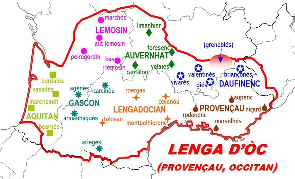 A map of Occitan dialects according to Frederic Mistral.